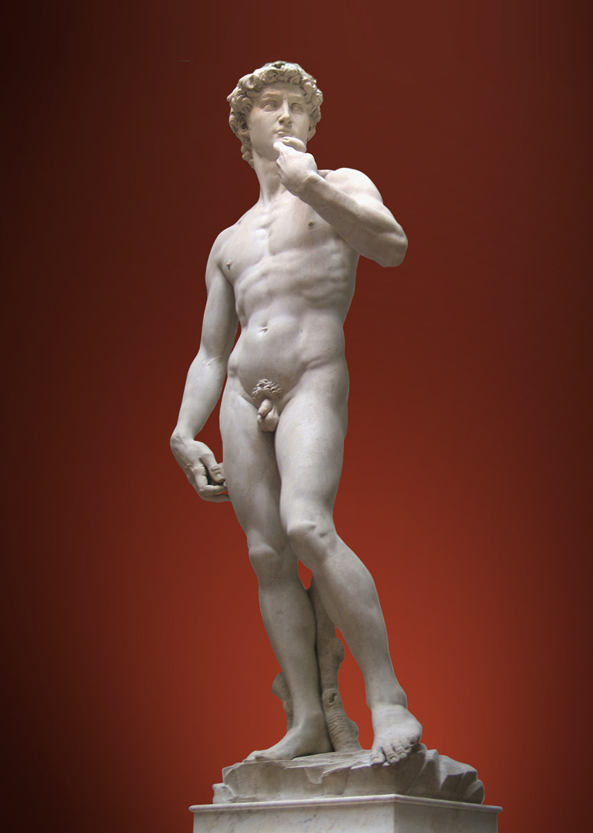 David — by Michelangelo.